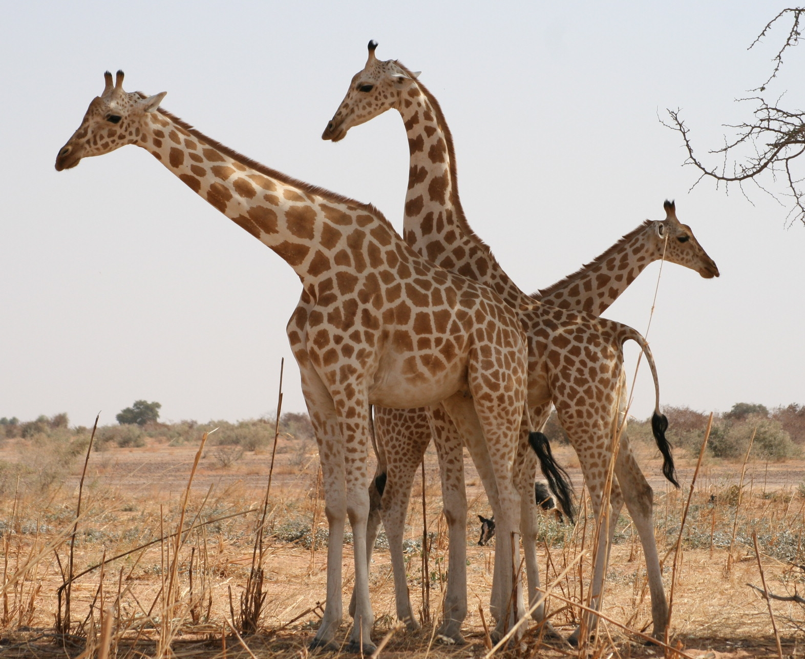 girafe, giraffes, giraffe, niamey, koure, kouré, niger, africa, afrika, afrique, animals, Tiere